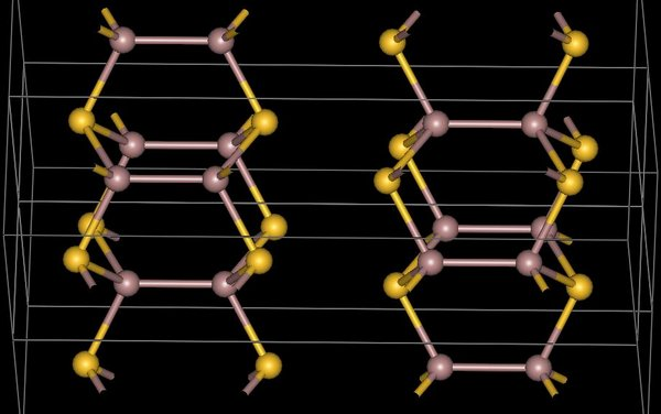 A distorted wurtzite structure common for GaS, GaTe, GaSe, etc. Journal = JOURNAL OF SOLID STATE CHEMISTRY Year = 1982 Volume = 41 Page = 97-103 Title = Polytype Phase Transition in the Series GaSe1-xSx Authors = Terhell J.C.J.M., Brabers V.A.M., Van Egmond G.E. Category:Sulfides